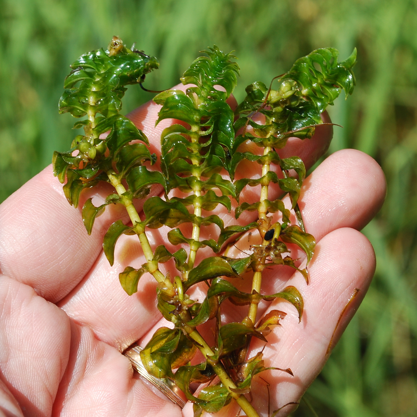 Groenlandia densa